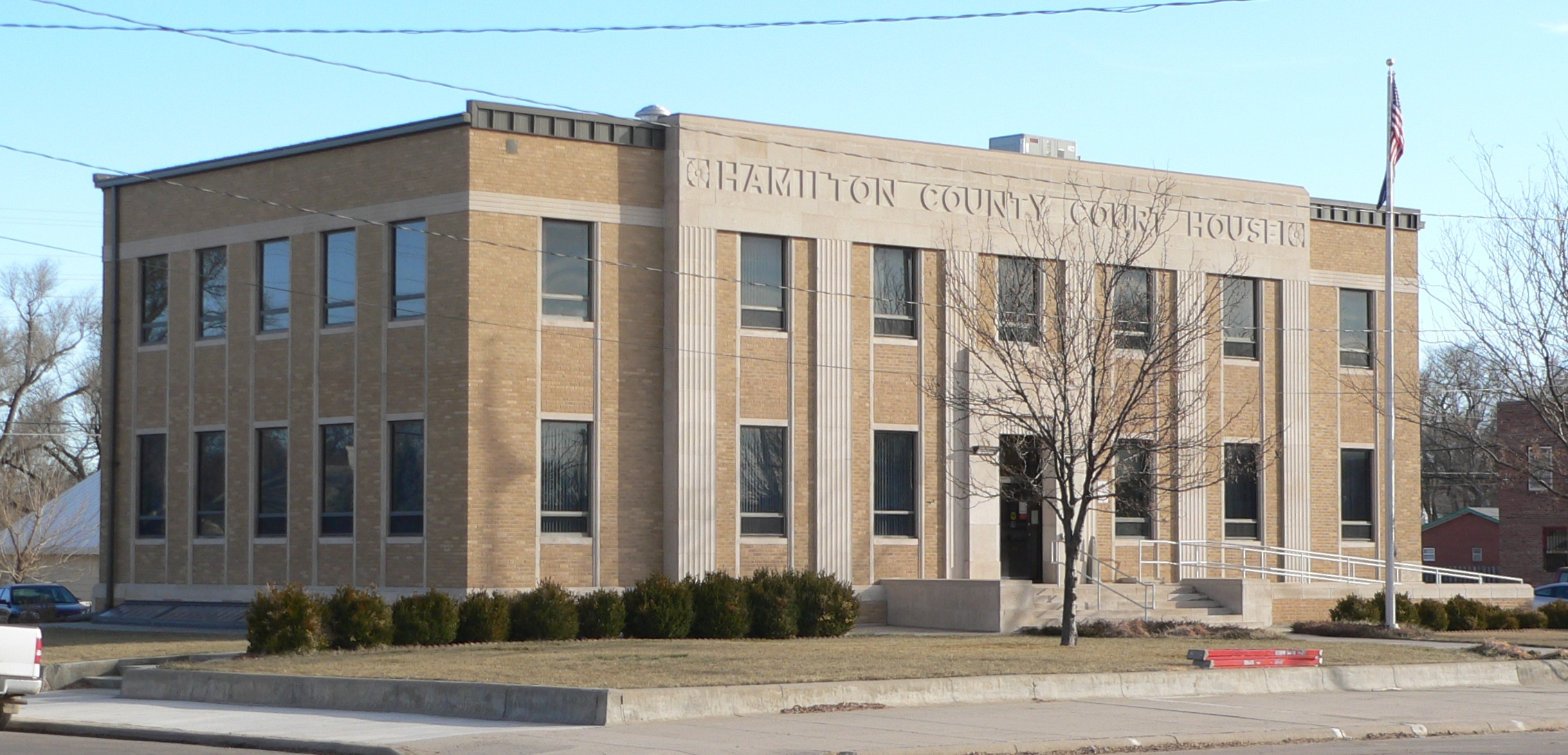 Hamilton County courthouse in Syracuse, Kansas; seen from the northwest. The Art Deco building was designed by architects Overend & Boucher, and built in 1937.